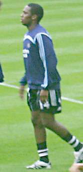 Image of Charles N'Zogbia warming up before a match.